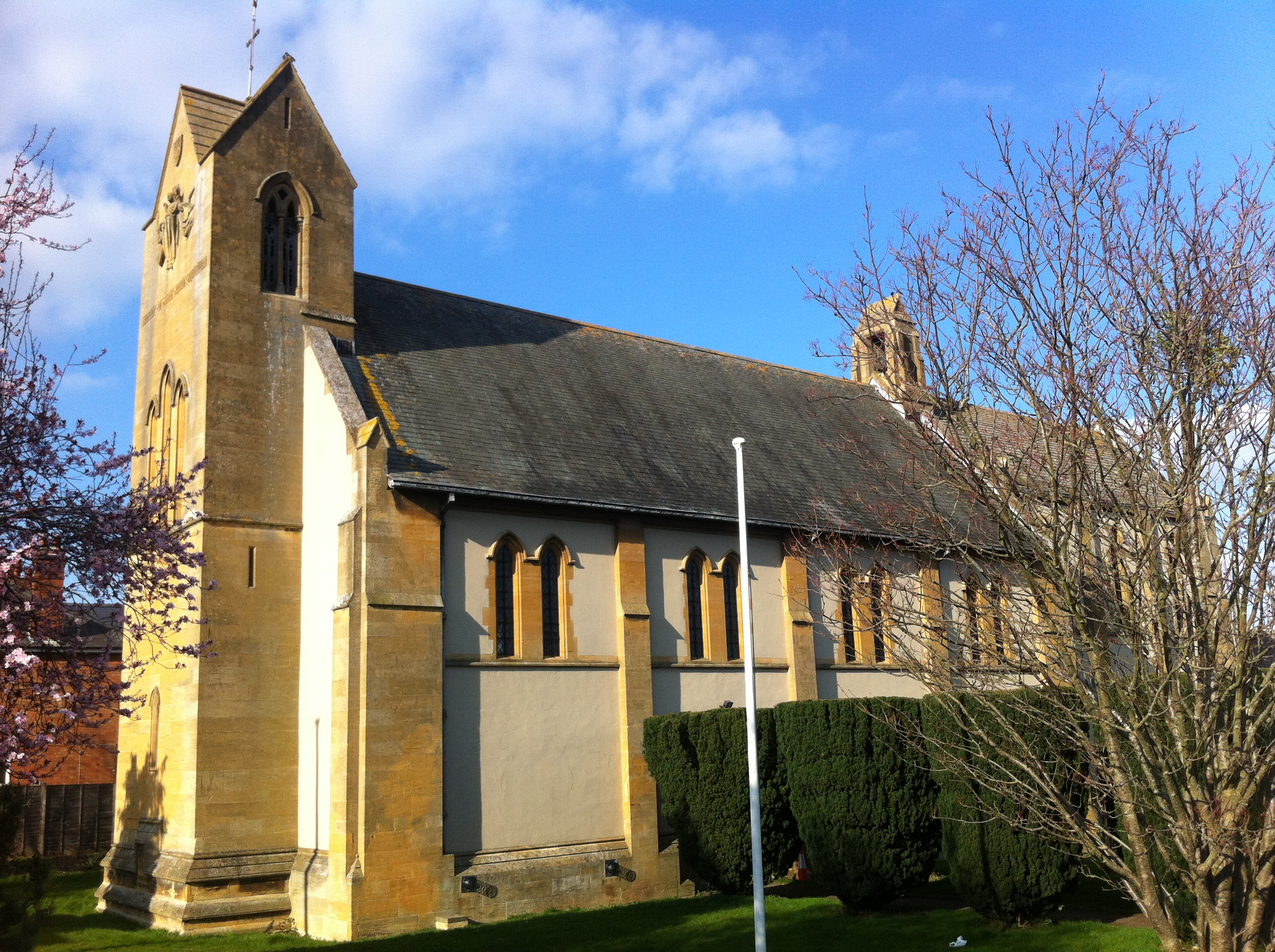 Exterior view of Ascension Church in Malvern Link, Worcestershire, England, looking North East